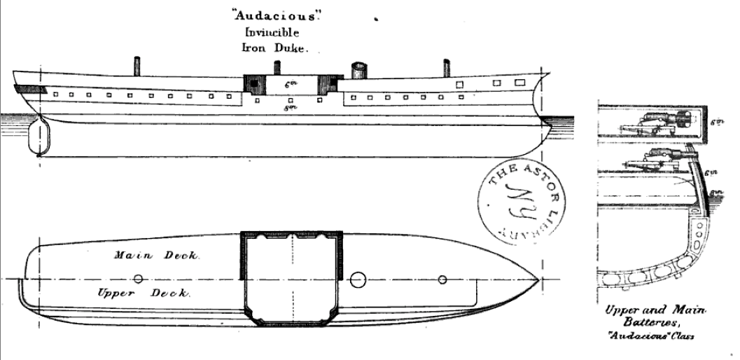 3 view of the Audacious-class ironclads From Brassey's Naval Annual 1887